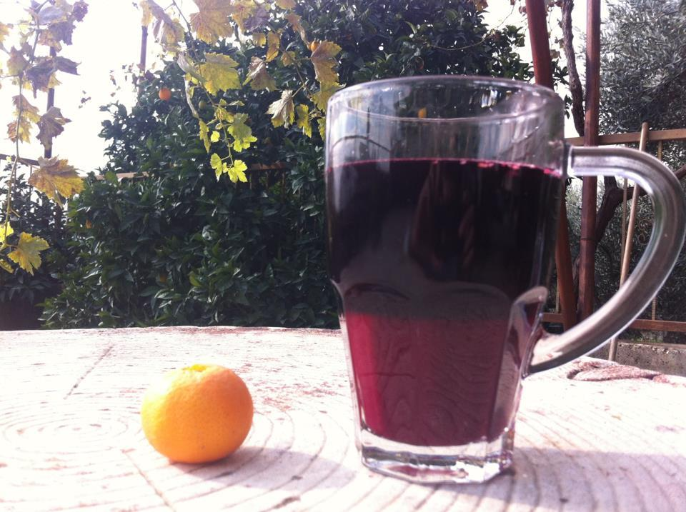 squeezed Pomegranate juice